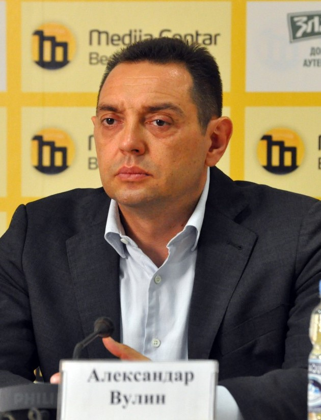 Serbian Minister of Defence, Aleksandar Vulin